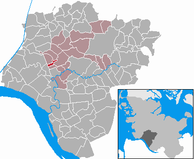 This map shows the area of the municipality Krummendiek in the Kreis (district) Steinburg, Schleswig-Holstein, Germany.